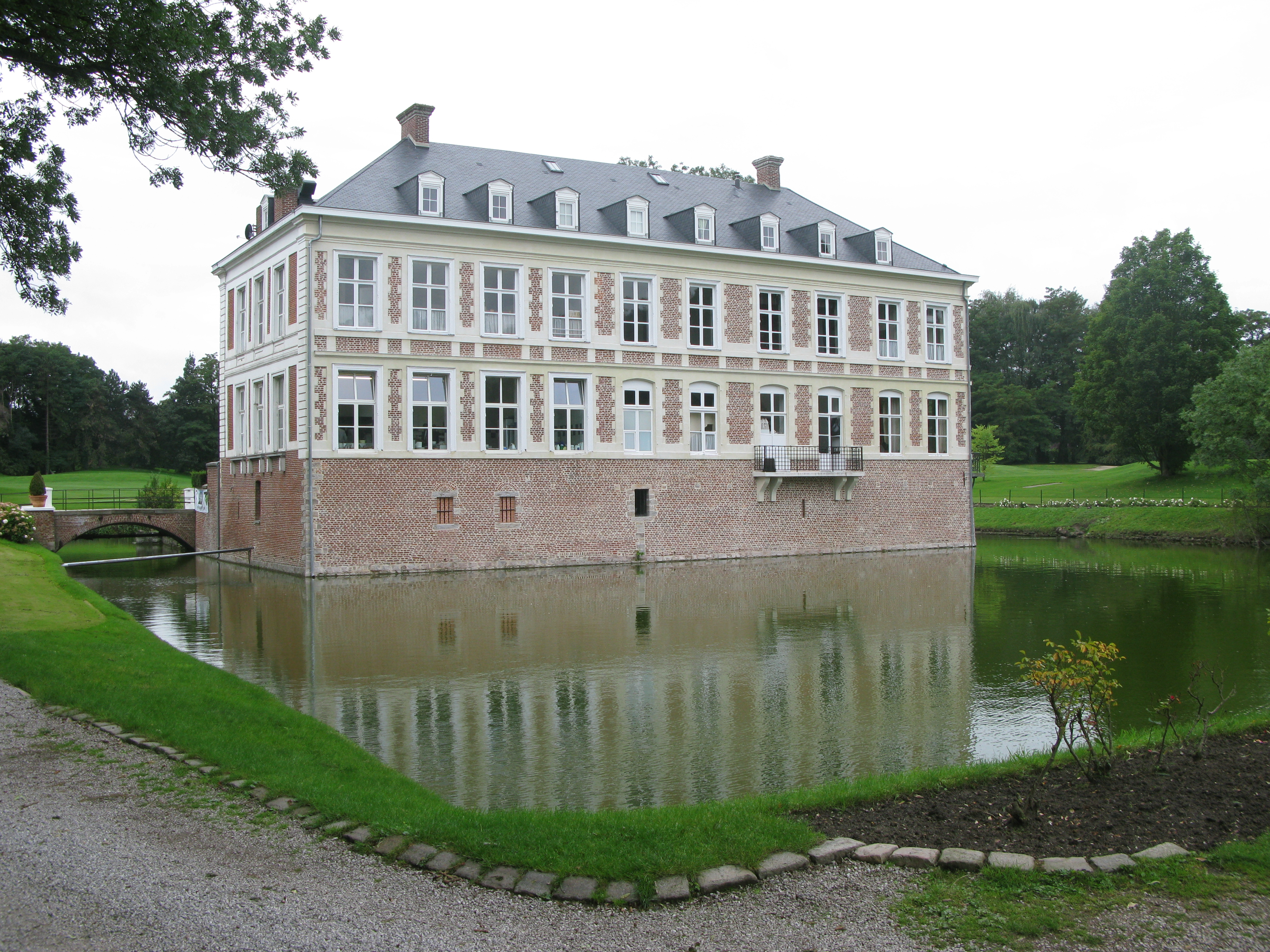 Sart castle, southern facade, Villeneuve d'Ascq.